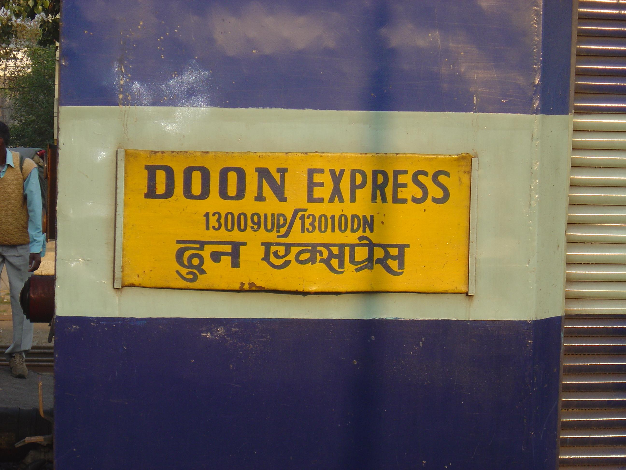 13010 Doon Express